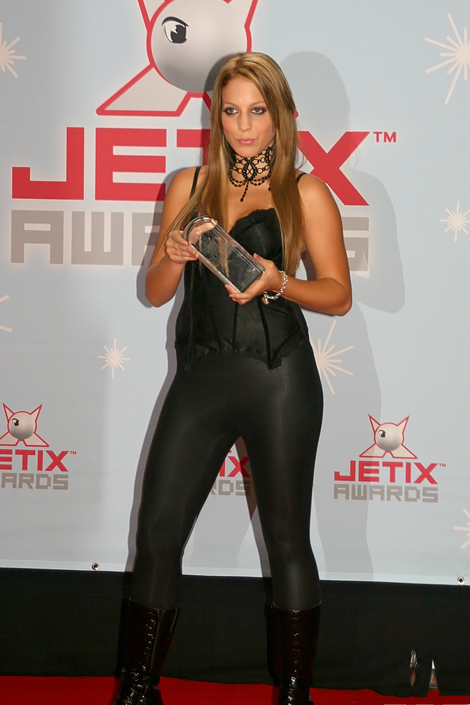 LaFee during the conferment of the JETIX Award at the youth fair "YOU", Berlin